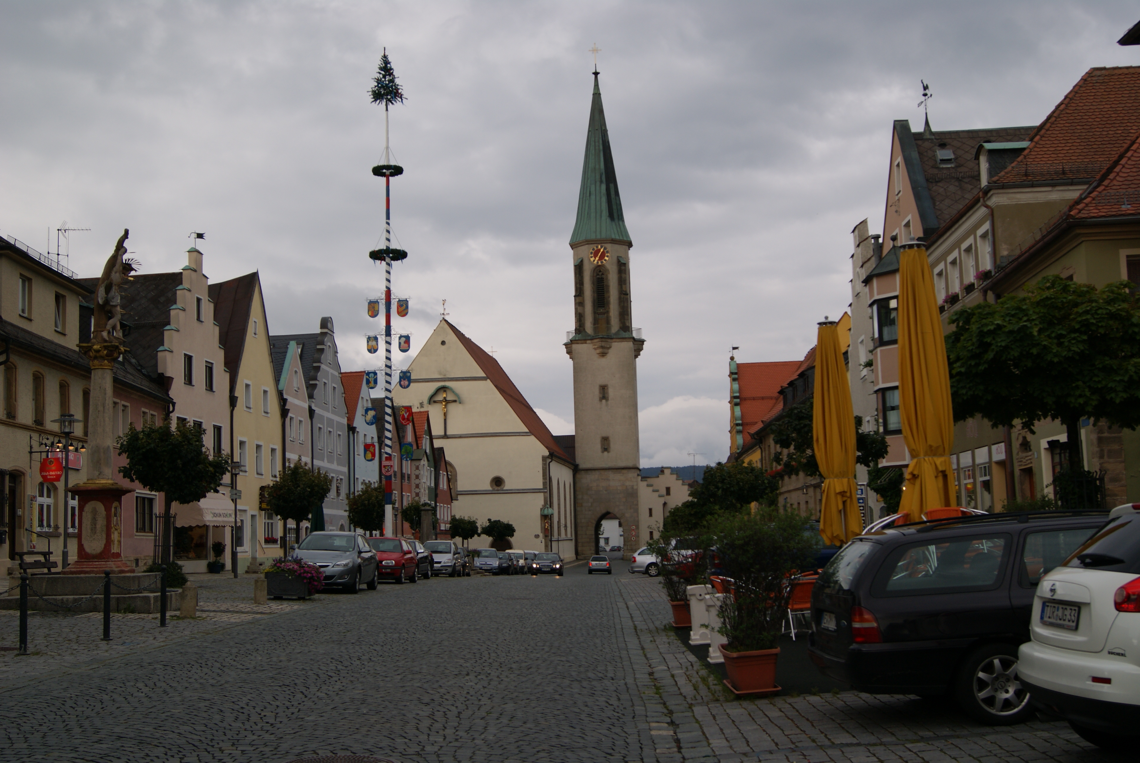 Stadtplatz Kemnath-Bavaria-Germany